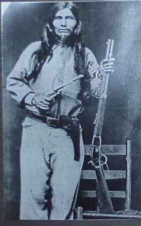 Photo of Ned Christie, Cherokee outlaw or Robin Hood depending on the source